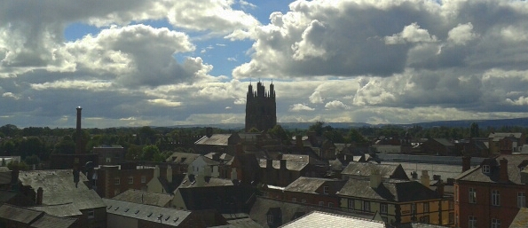 2013 photograph of Wrexham town centre skyline with St Giles Church in the centre.